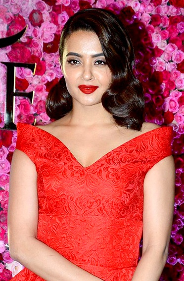 Surveen Chawla celebrities grace Lux Golden Rose Awards 2016 in Mumbai